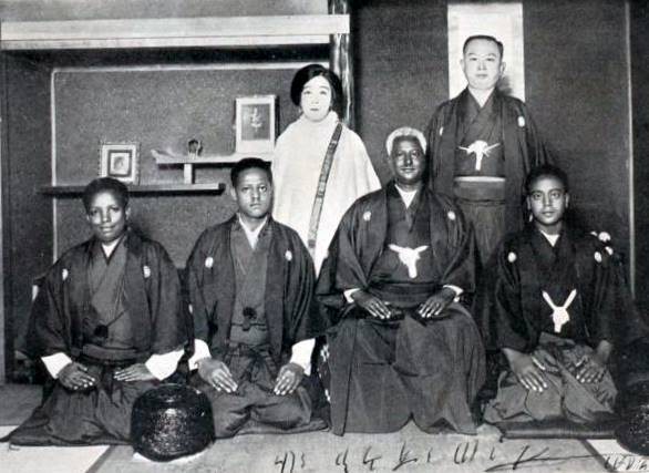 Heruy Wolde Selassie (1878-1938) (centre), foreign minister of Ethiopia, during his 1931 visit to Japan